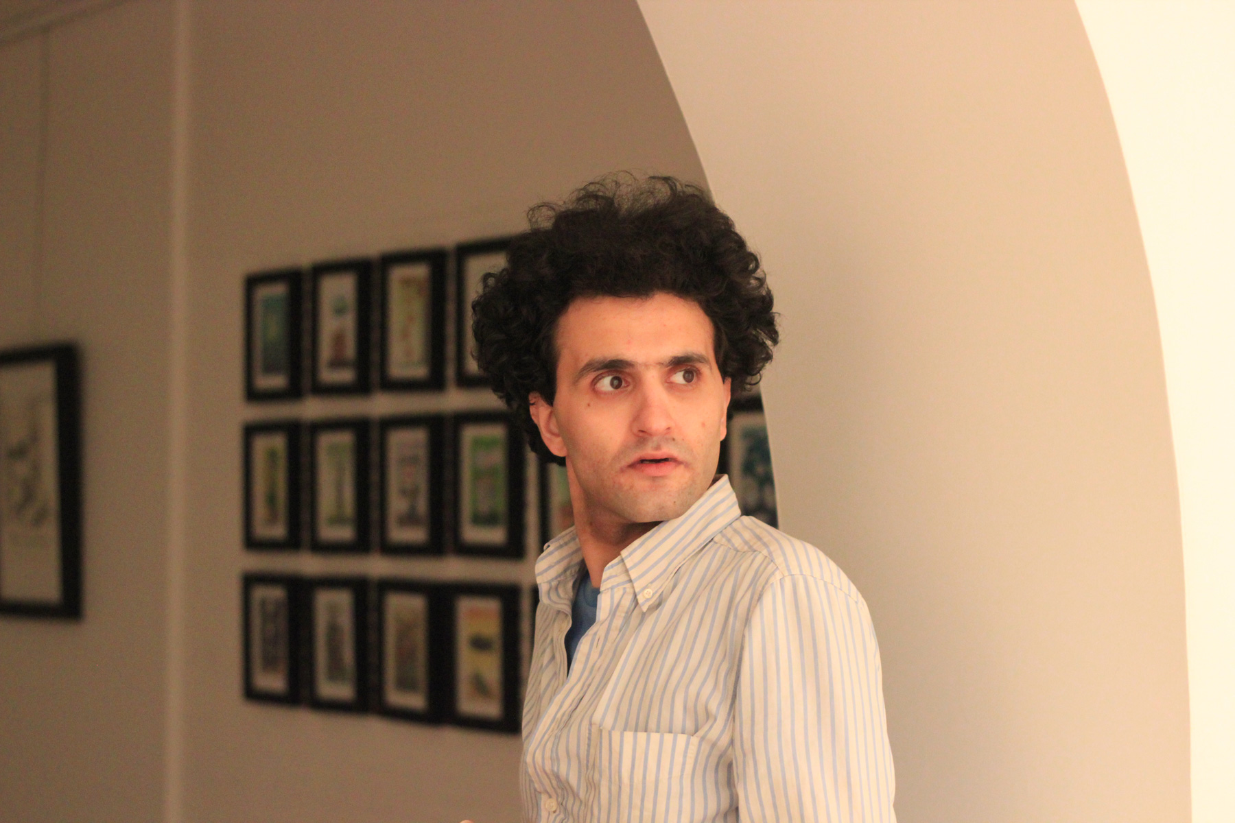 "Davoud Ahmadi Mouness (Arvin)" Iranian Editorial Cartoonist on the last night of his cartoon exhibition "Me, the good old days!" at "Atbin Gallery" in Tehran. (July 3, 2012) Photo by Reza Mansoori